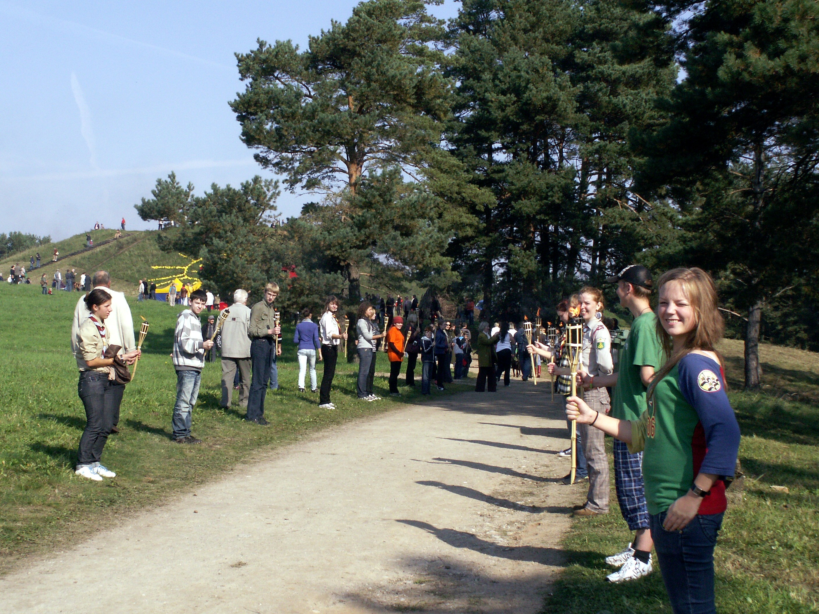 Baltic Unity Day, Salduvė, Šiauliai, LietuvaLietuvių: Baltų vienybės diena, Salduvė, Šiauliai, Lietuva